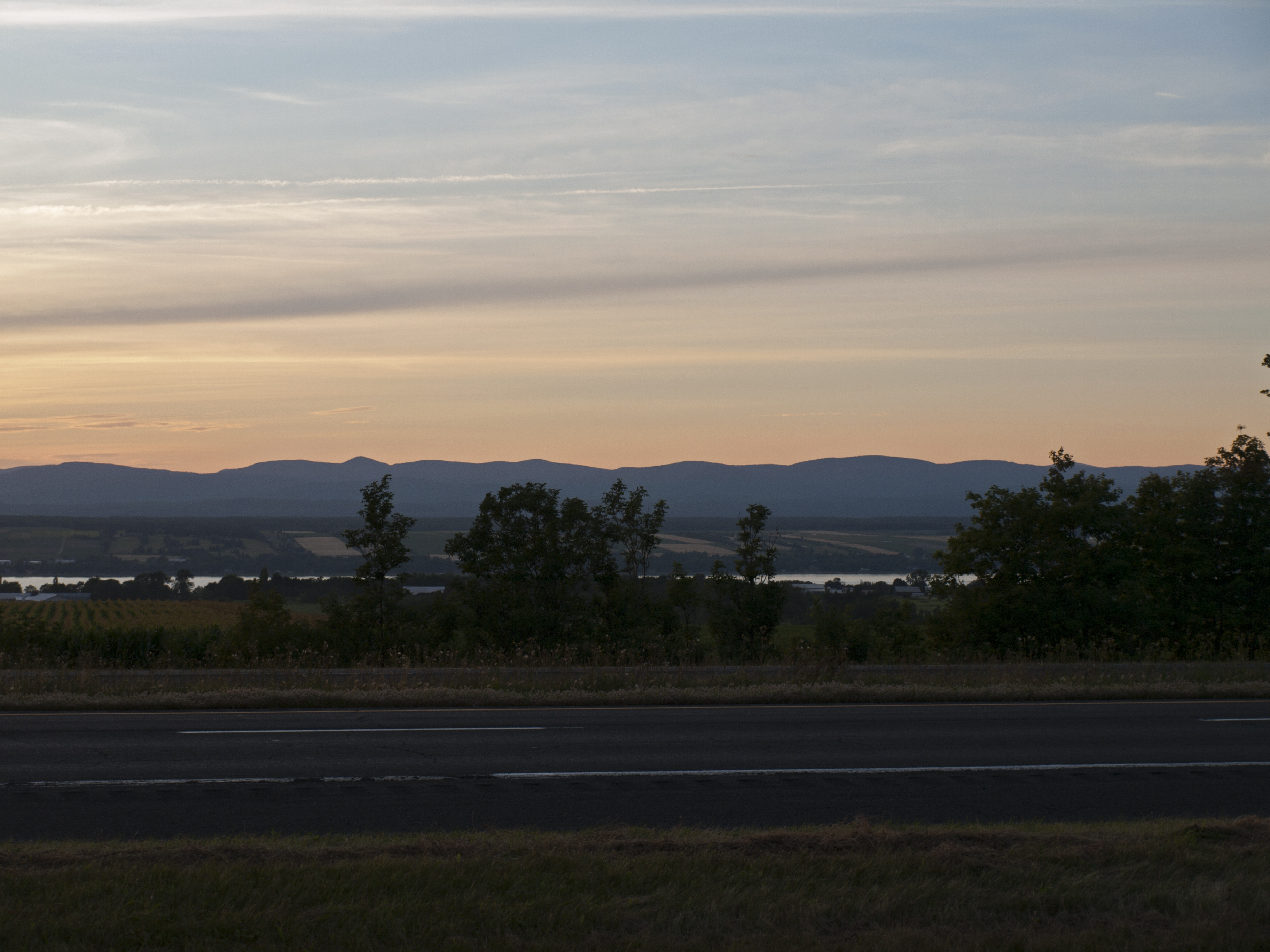 The Laurentian Mountains and the Saint Lawrence River at a sunset from Halte-routiére de La Durantaye, Saint-Michel-de-Bellechasse, Quebec